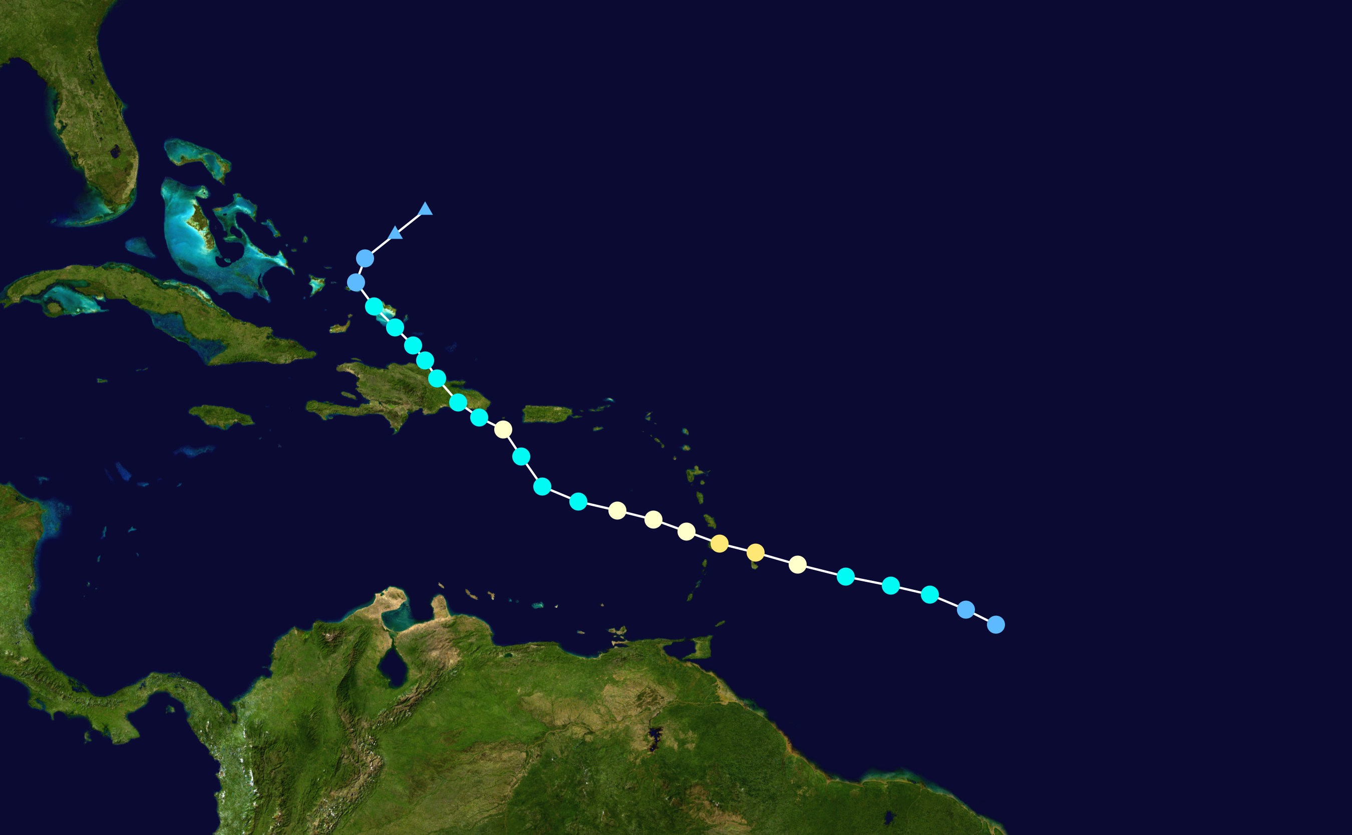 Track map of Hurricane Edith of the 1963 Atlantic hurricane season. The points show the location of the storm at 6-hour intervals. The colour represents the storm's maximum sustained wind speeds as classified in the Saffir–Simpson scale (see below), and the shape of the data points represent the nature of the storm, according to the legend below. Saffir–Simpson scale Tropical depression≤38 mph≤62 km/h Category 3111–129 mph178–208 km/h Tropical storm39–73 mph63–118 km/h Category 4130–156 mph209–251 km/h Category 174–95 mph119–153 km/h Category 5≥157 mph≥252 km/h Category 296–110 mph154–177 km/h Unknown Storm type Tropical cyclone Subtropical cyclone Extratropical cyclone / Remnant low / Tropical disturbance / Monsoon depression